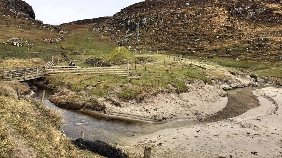 Iron Age Stonehouse in Bostadh in Isle of Lewis This file was uploaded by Dig It!, a year long celebration of archaeology coordinated by Archaeology Scotland and the Society of Antiquaries of Scotland. This tag does not indicate the copyright status of the attached work. A normal copyright tag is still required. See Commons:Licensing for more information.